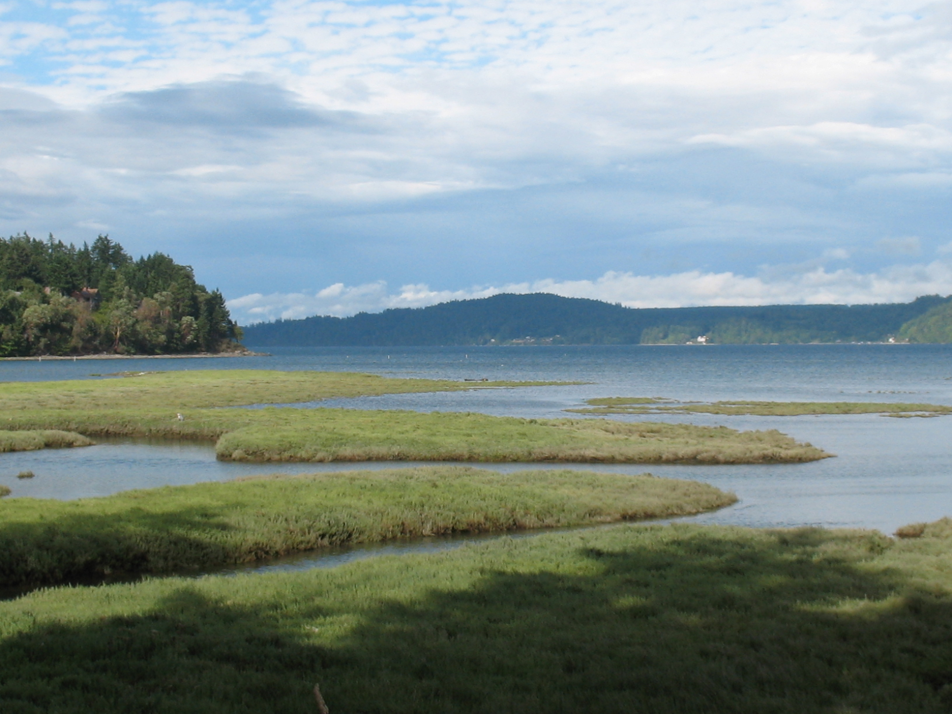 Shoalwater Bay in western Washington (Pacific County, Washington)